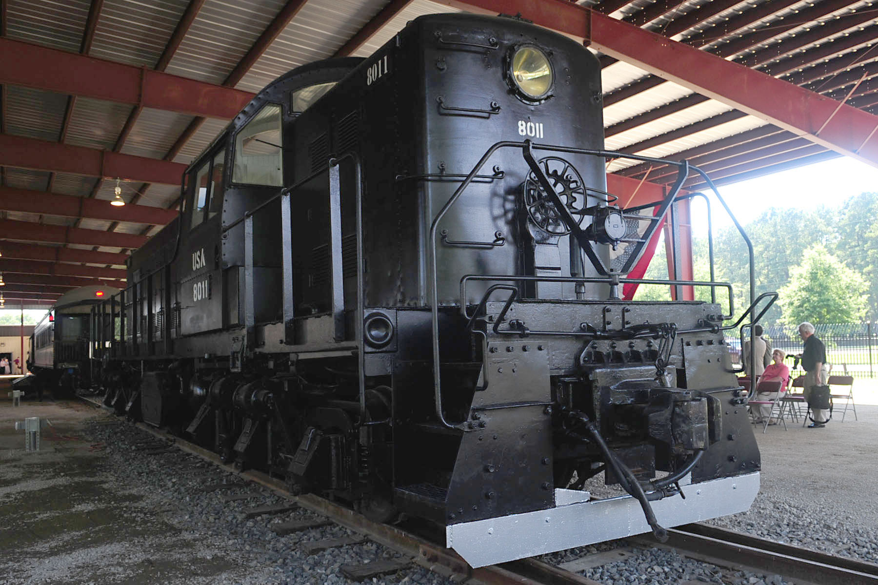 This RS-1 locomotive was put on display before the start of the U.S. Transportation Corps’ 70th Anniversary Ceremony at Fort Eustis, Va., July 25, 2012. The ceremony was held to showcase the newly-obtained locomotive, as well as unveil the Army Transportation Museum’s new railyard pavilion. (U.S. Air Force photo by Staff Sgt. Ashley Hawkins/Released)